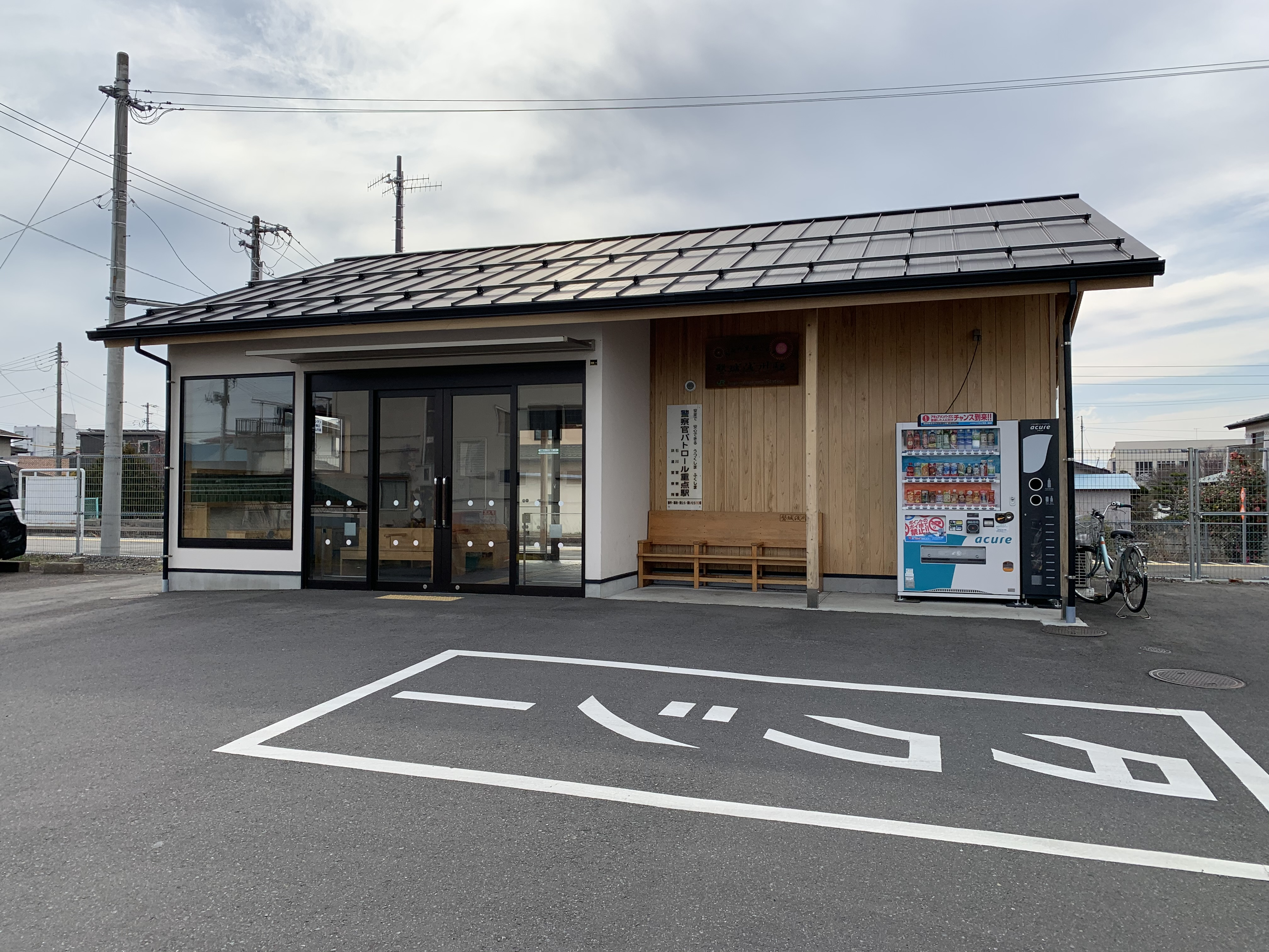 Iwaki-Asakawa Station, East Japan Railway Company. Took photo in April 2020.